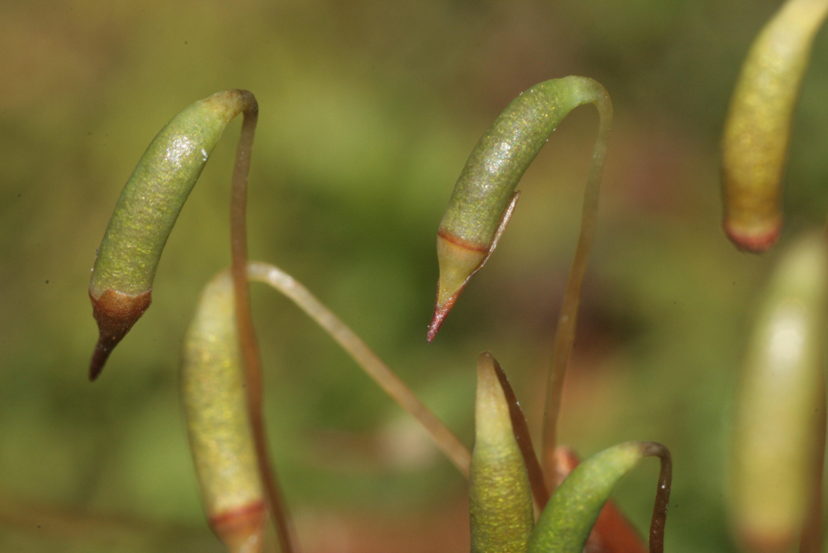 Mnium marginatum